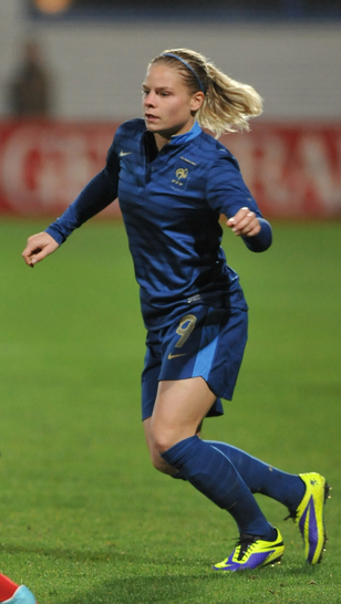 FIFA Women's World Cup 2015 Qualiying Round Österreich - Frankreich am 31. Oktober 2013 in Ritzing: Eugénie Le Sommer